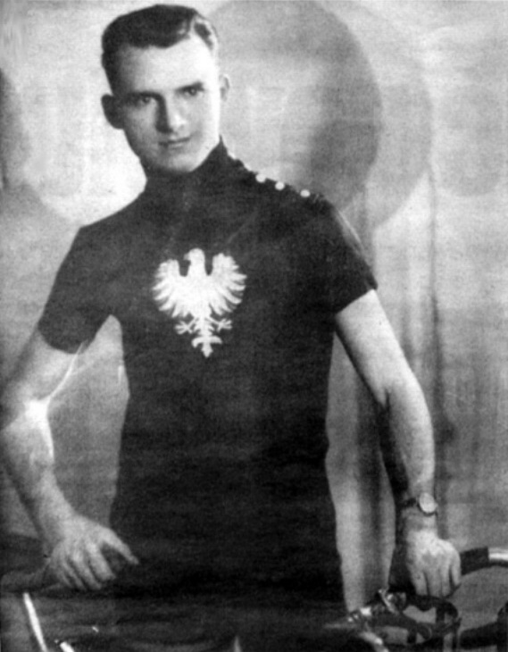 Stanisław Kłosowicz (1906-1955), Polish cyclist.